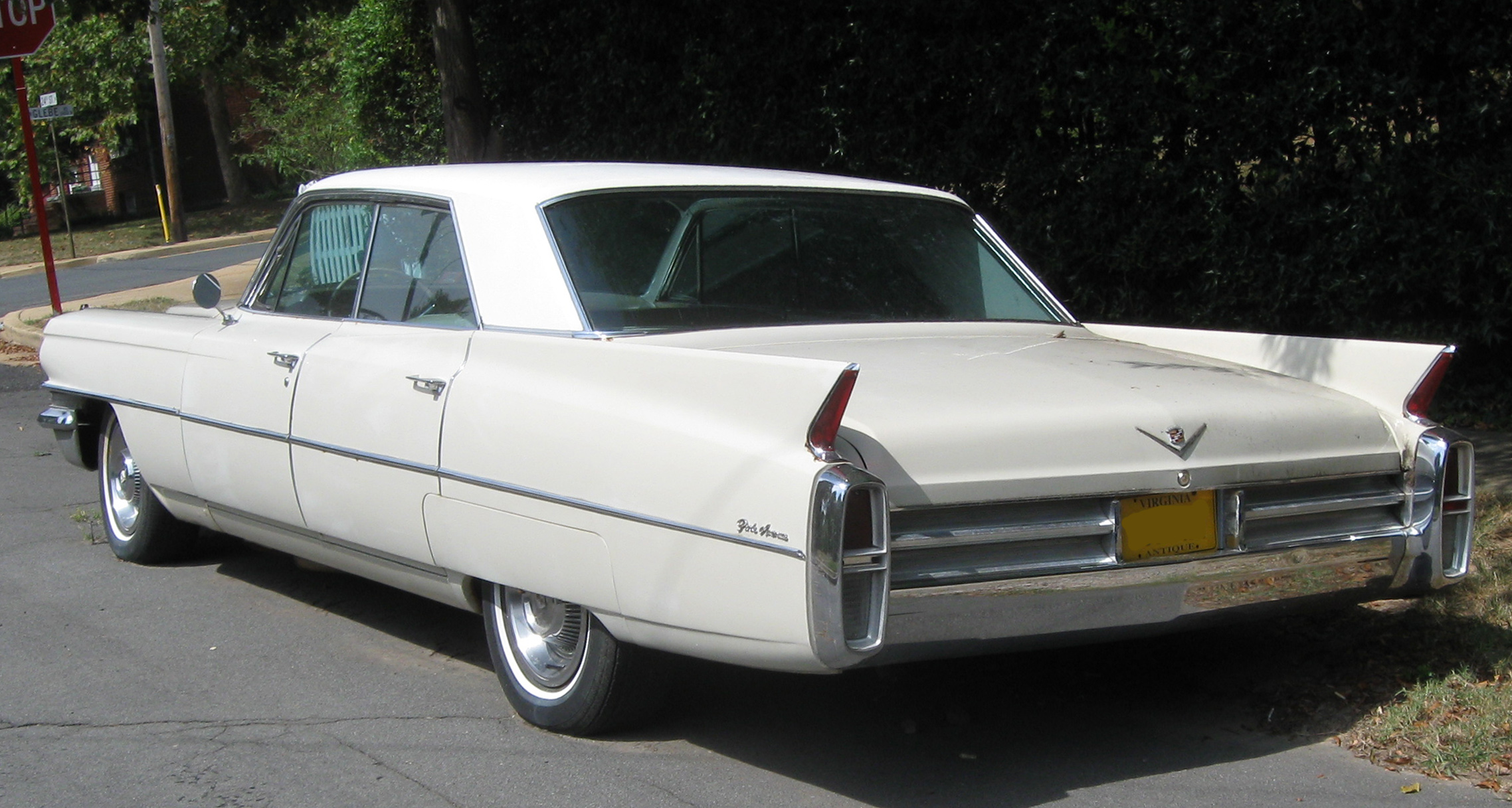 1963 Cadillac photographed in Arlington, Virginia, USA.